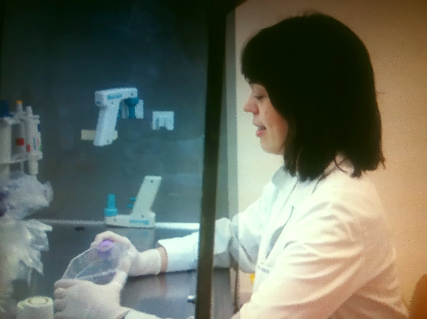 Ainhoa Murua Ugarte (Legazpia, 1979, Vitoria-Gasteiz 2012) was a biochemist.